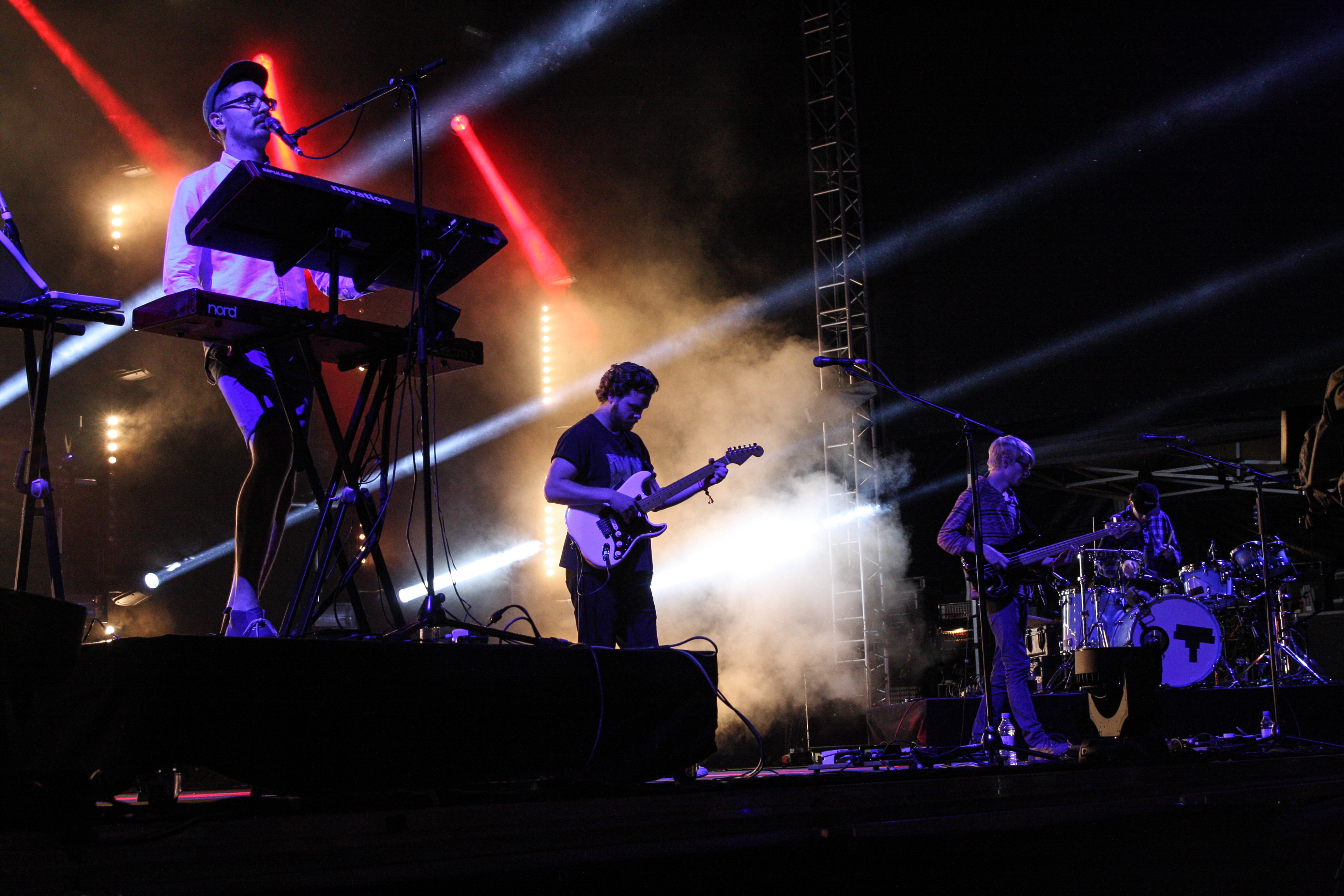 Alt-J performing at Melt! Festival 2013